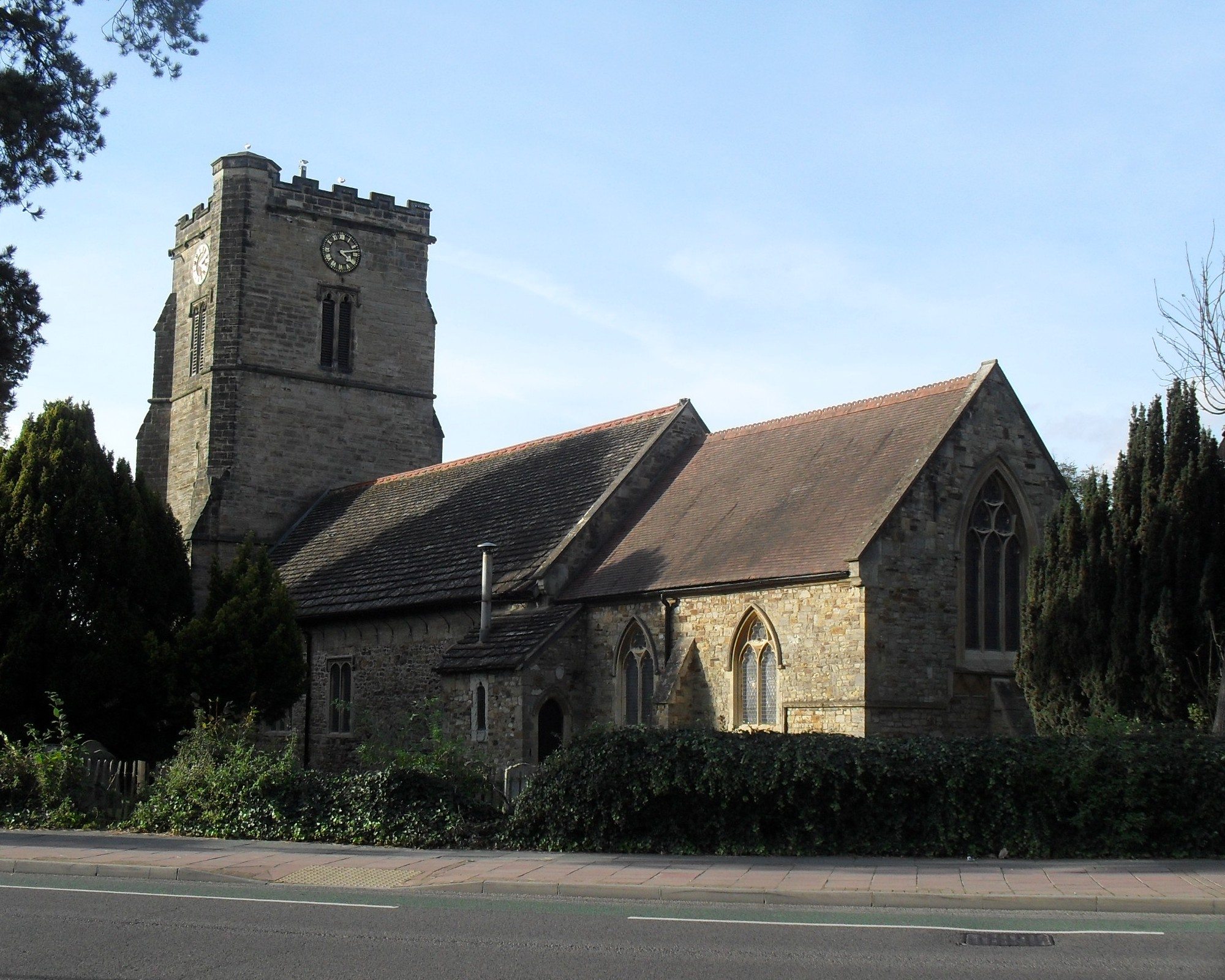 St John the Baptist parish church, High Street, Crawley, West Sussex, seen from the southeast from Haslett Avenue West